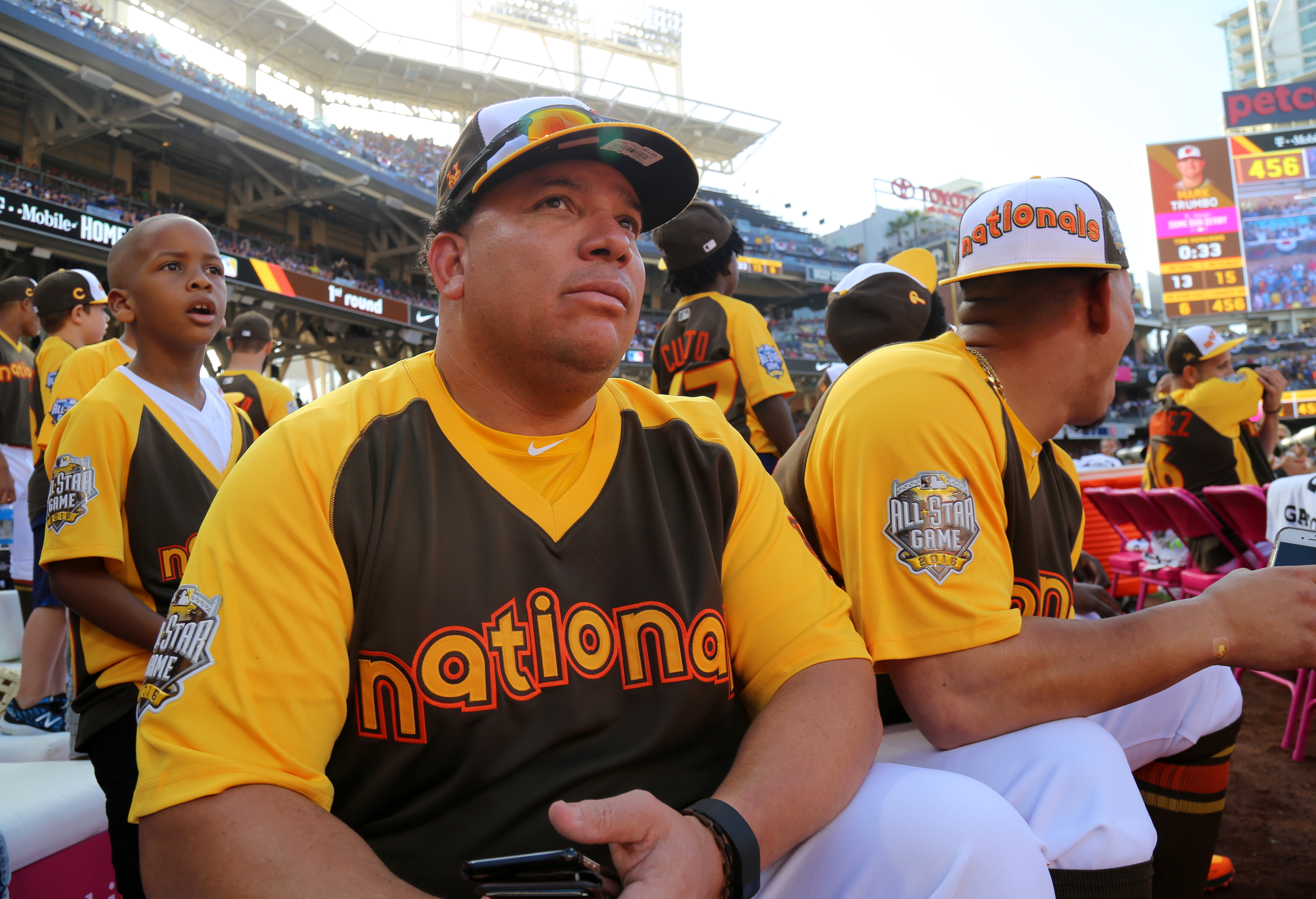 Bartolo Colon looks on during the 2016 T-Mobile #HRDerby.